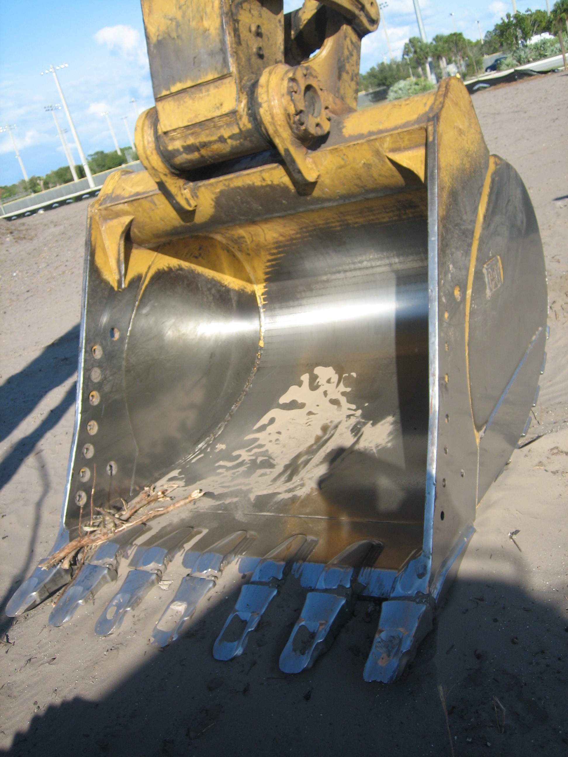 The bucket of a Caterpillar 345C L in South Florida. This image dose not show its true size properly.